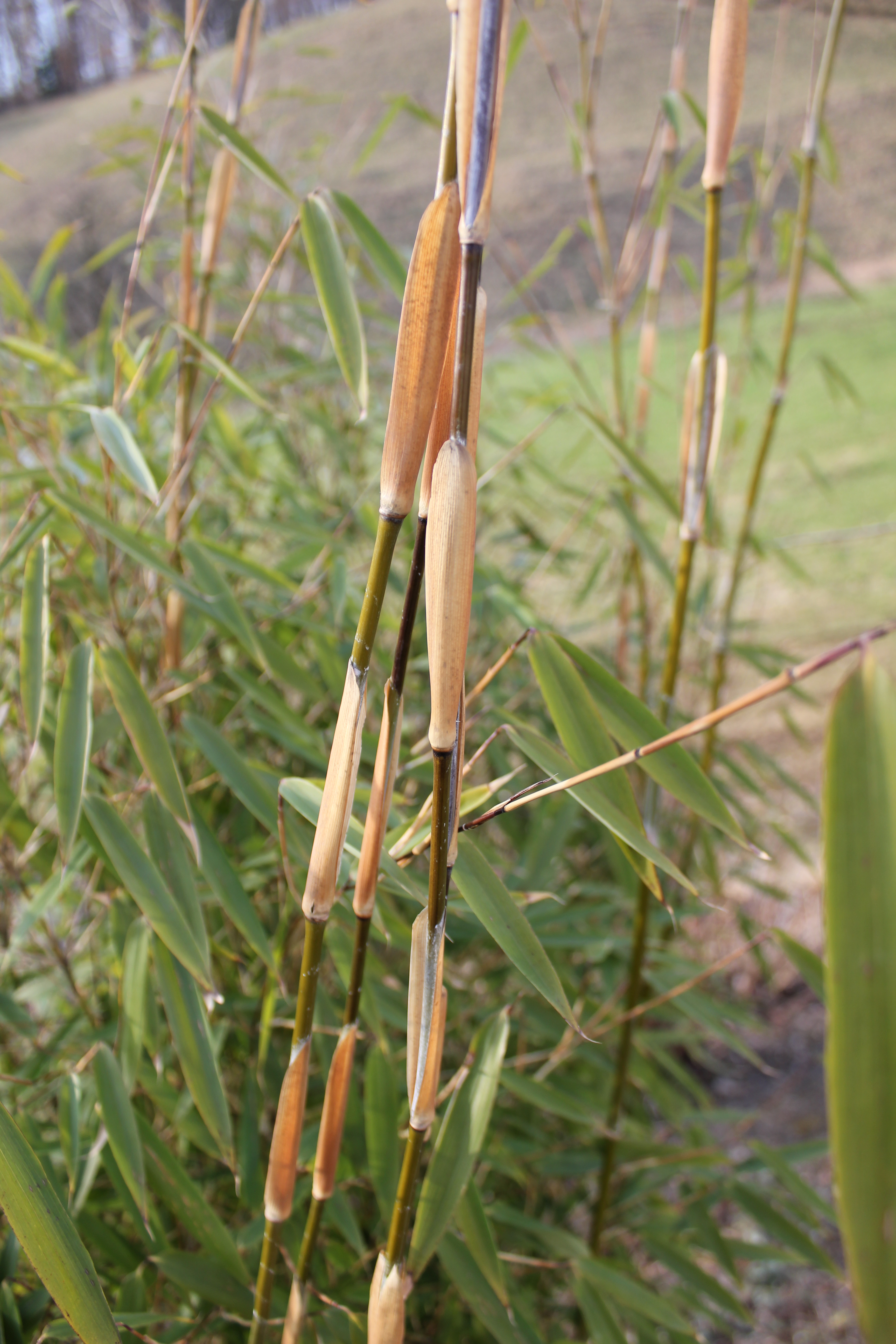 Fargesia murielae Culm sheaths